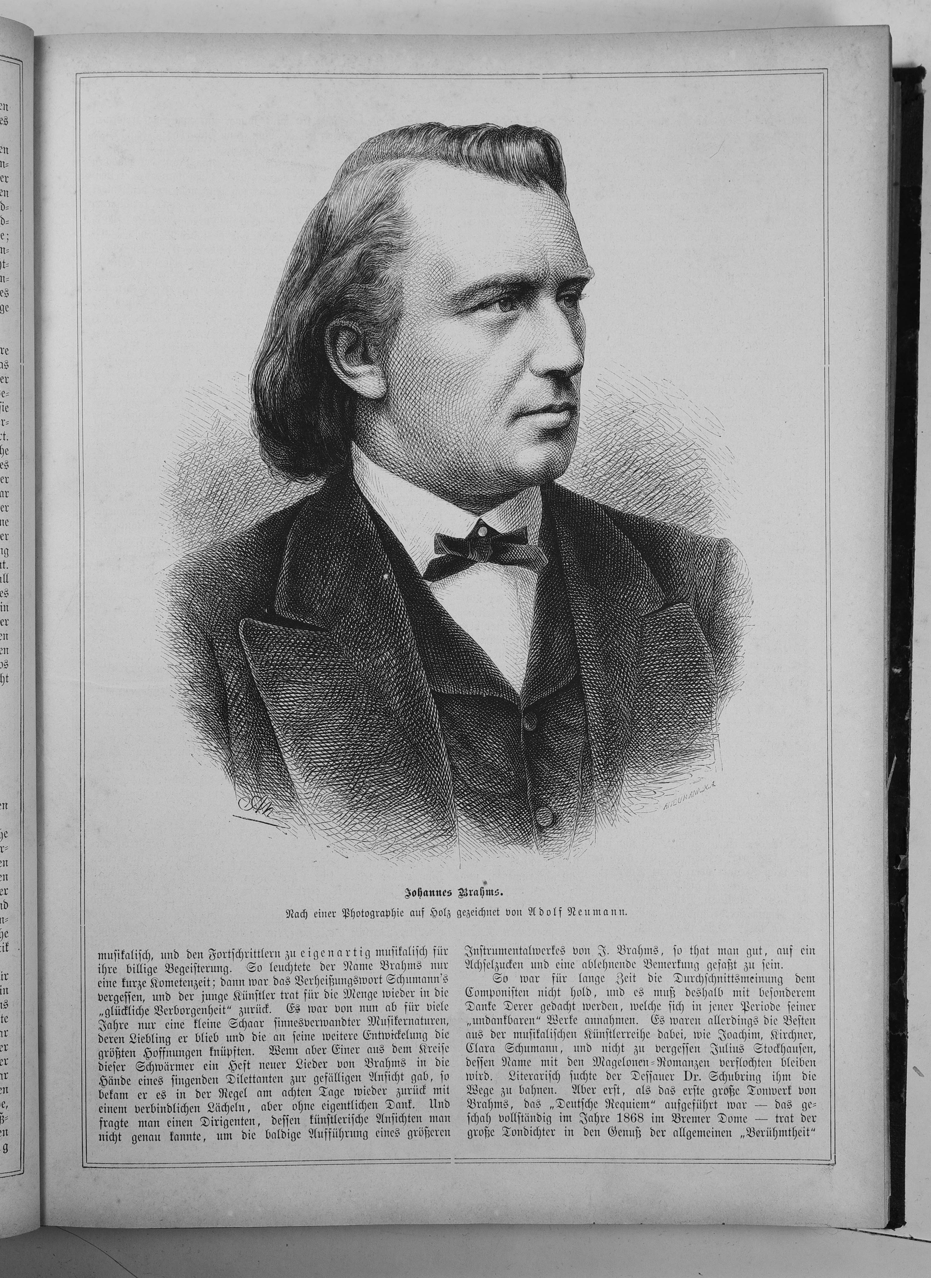 Page 221 from journal Die Gartenlaube for 1880.Extracted image (if any): File:Die Gartenlaube (1880) b 221.jpg - hi res, ~2.5 MB.